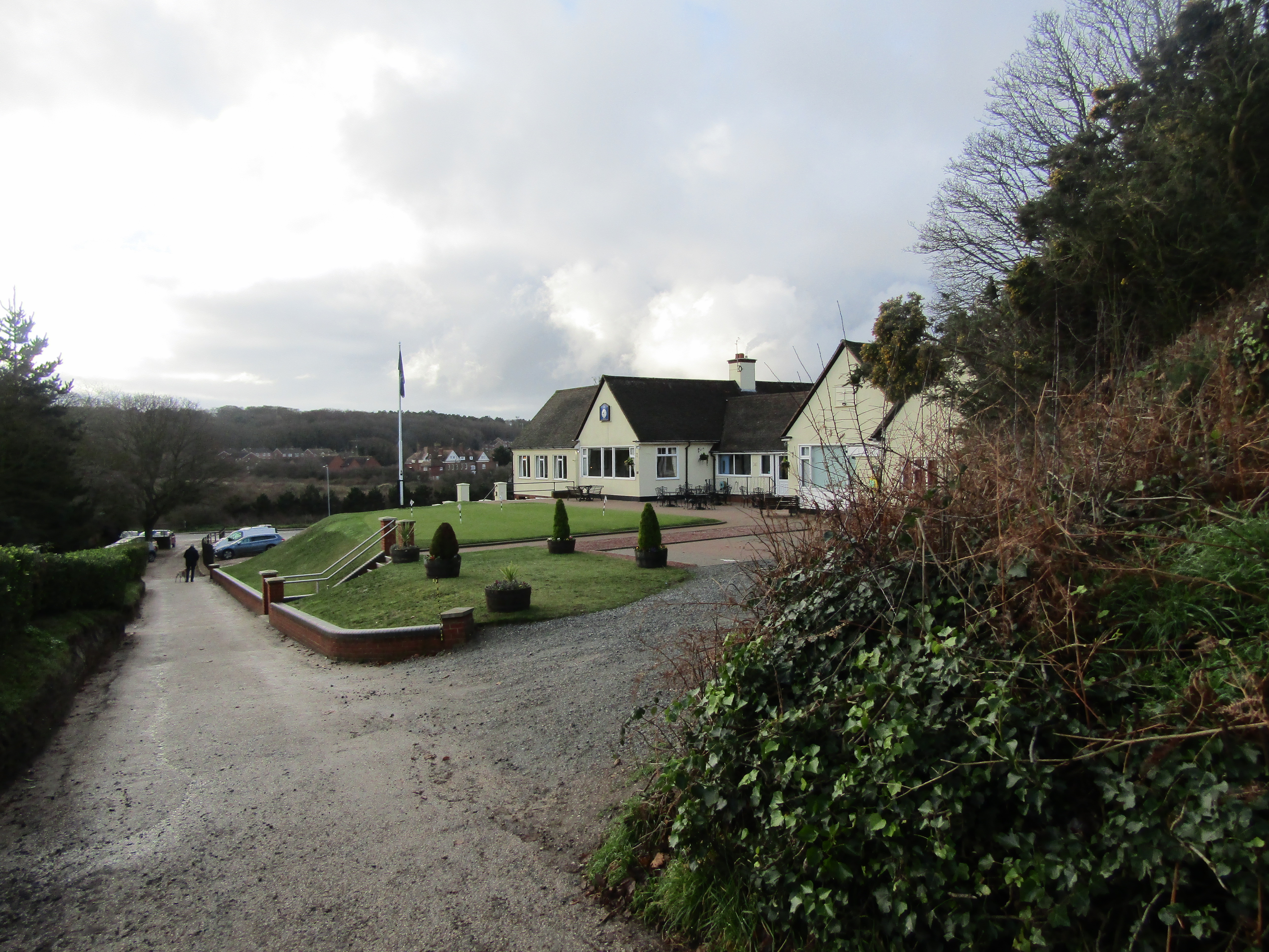 The access road to Cromer lighthouse which intsect the Cromer Royal golf course located in the town of Cromer, Norfolk, England.